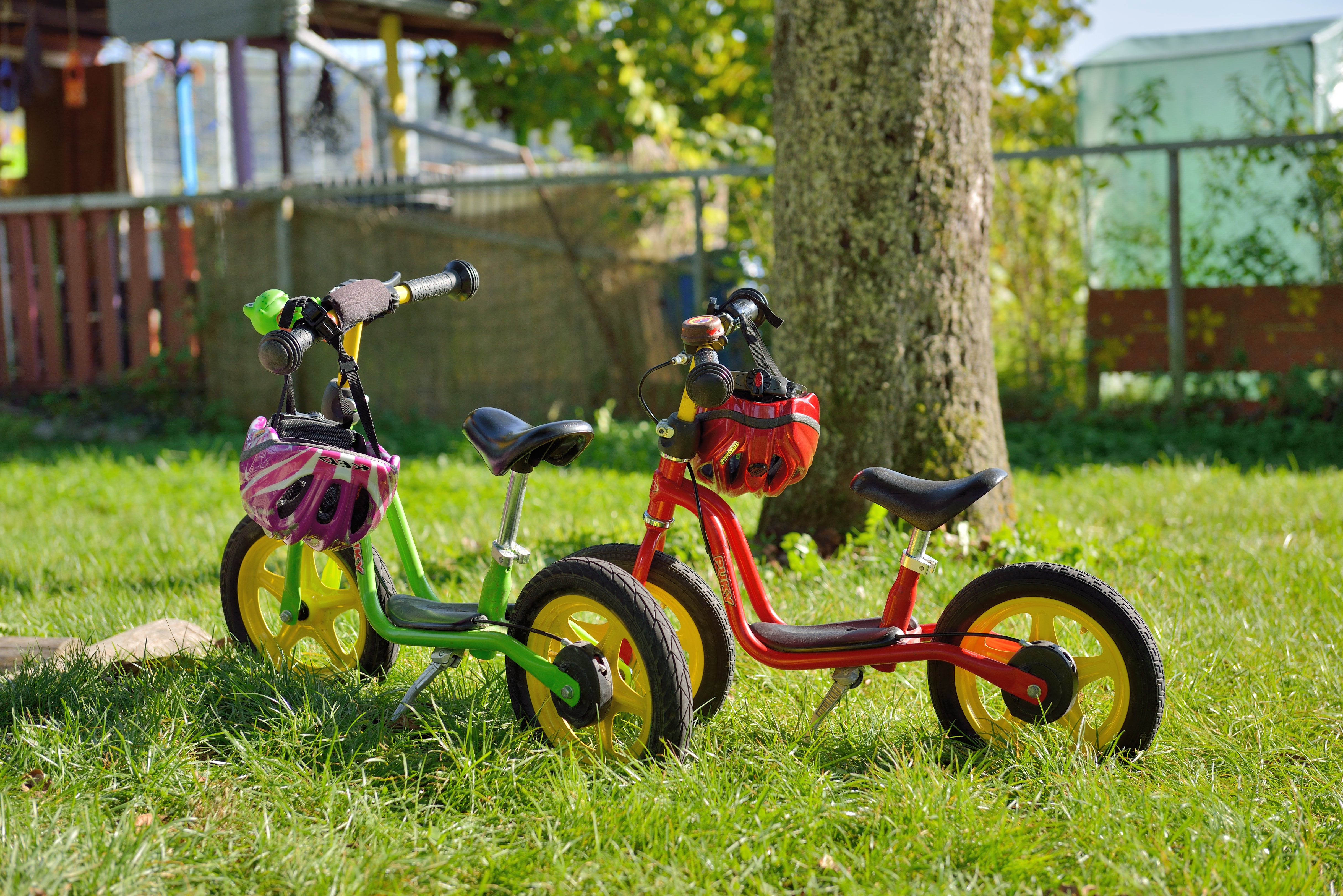 Two balance bikes